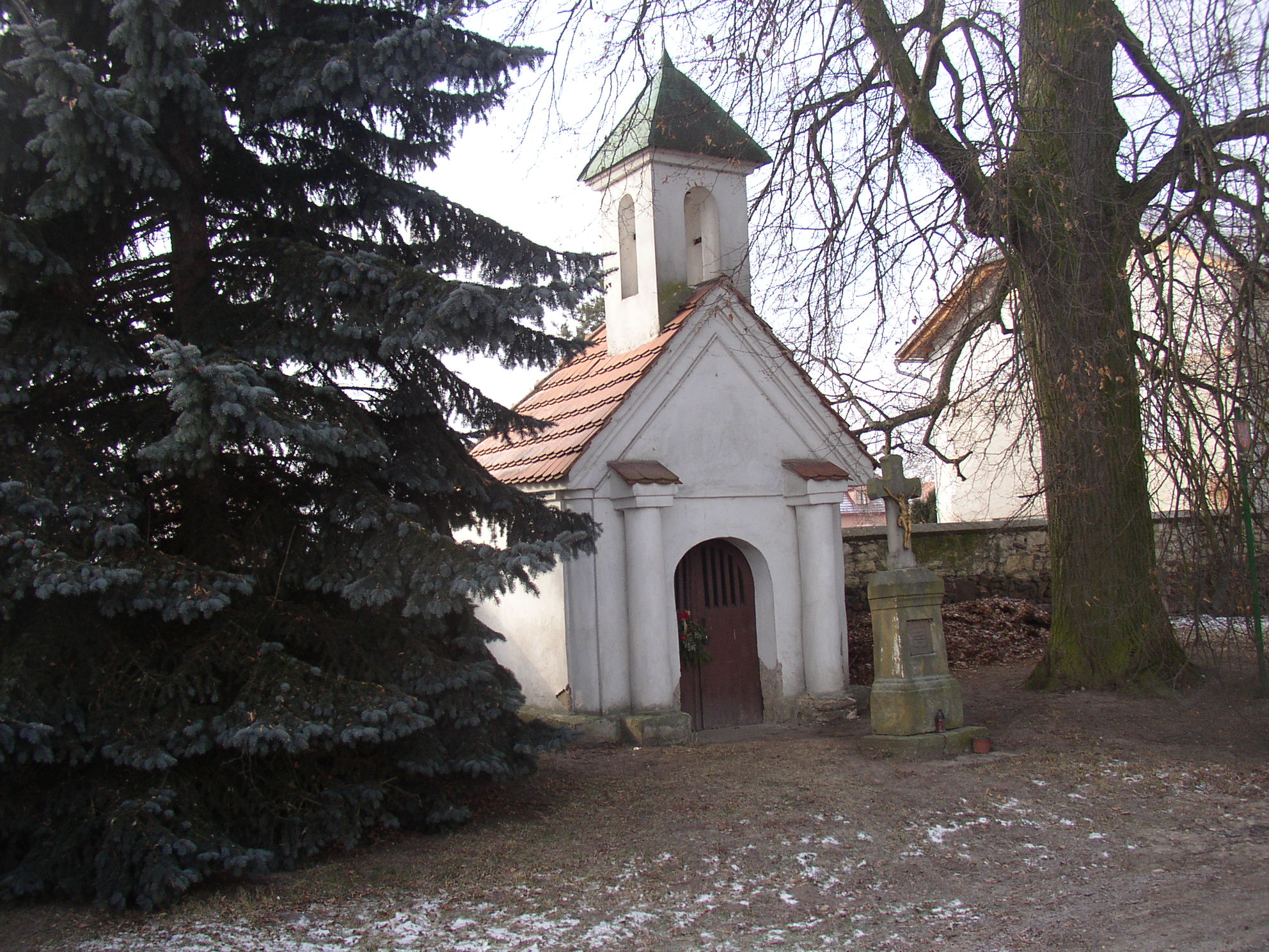 Chapel, waysice cross and trunk of a protected lime tree in village of Ptice, Prague-West District, Central Bohemian Region, Czech Republic.